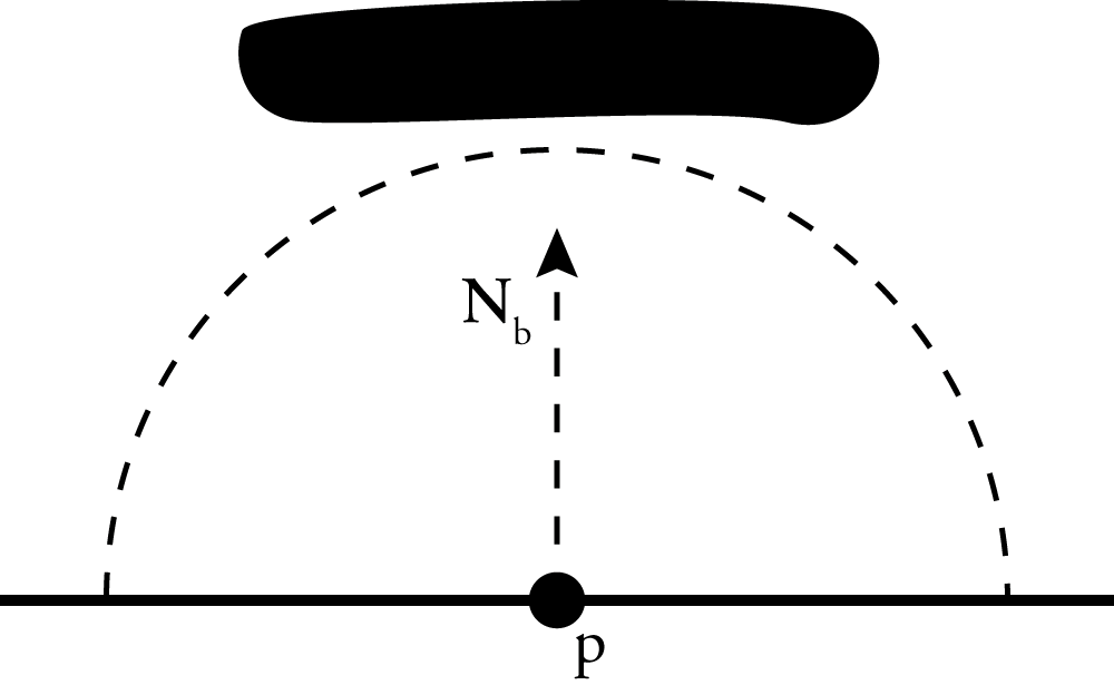 Illustration of a misrepresentative bent normal in ambient occlusion